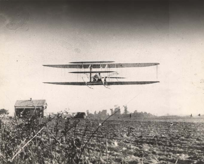 Wright brothers flying over the Kohn plantation in Montgomery, Alabama, where they set up a flying school. Maxwell Air Force Base was later built on the site.